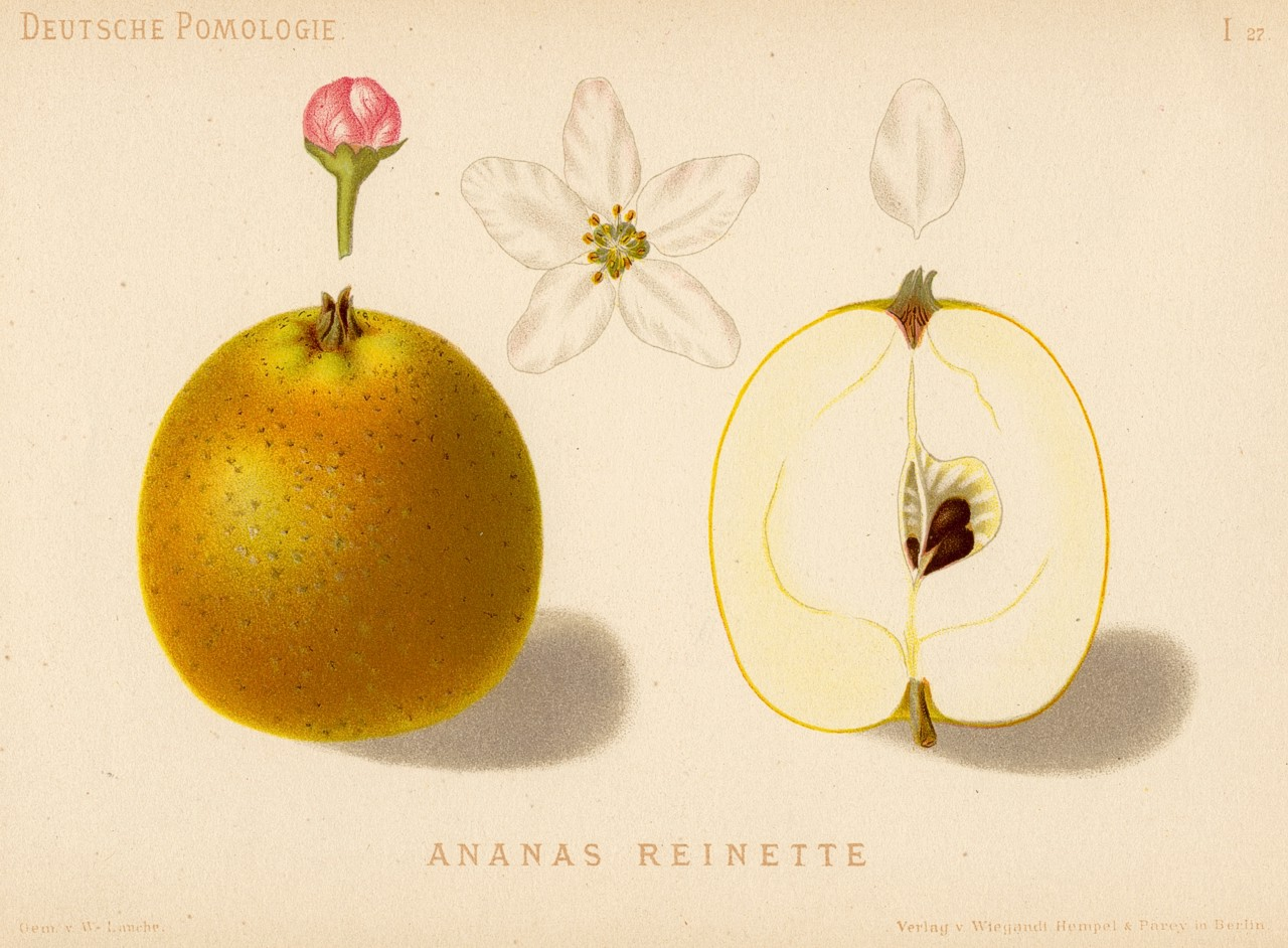 Illustration 27 from Deutsche Pomologie - Aepfel Apple cultivar shown: Ananas-Reinette